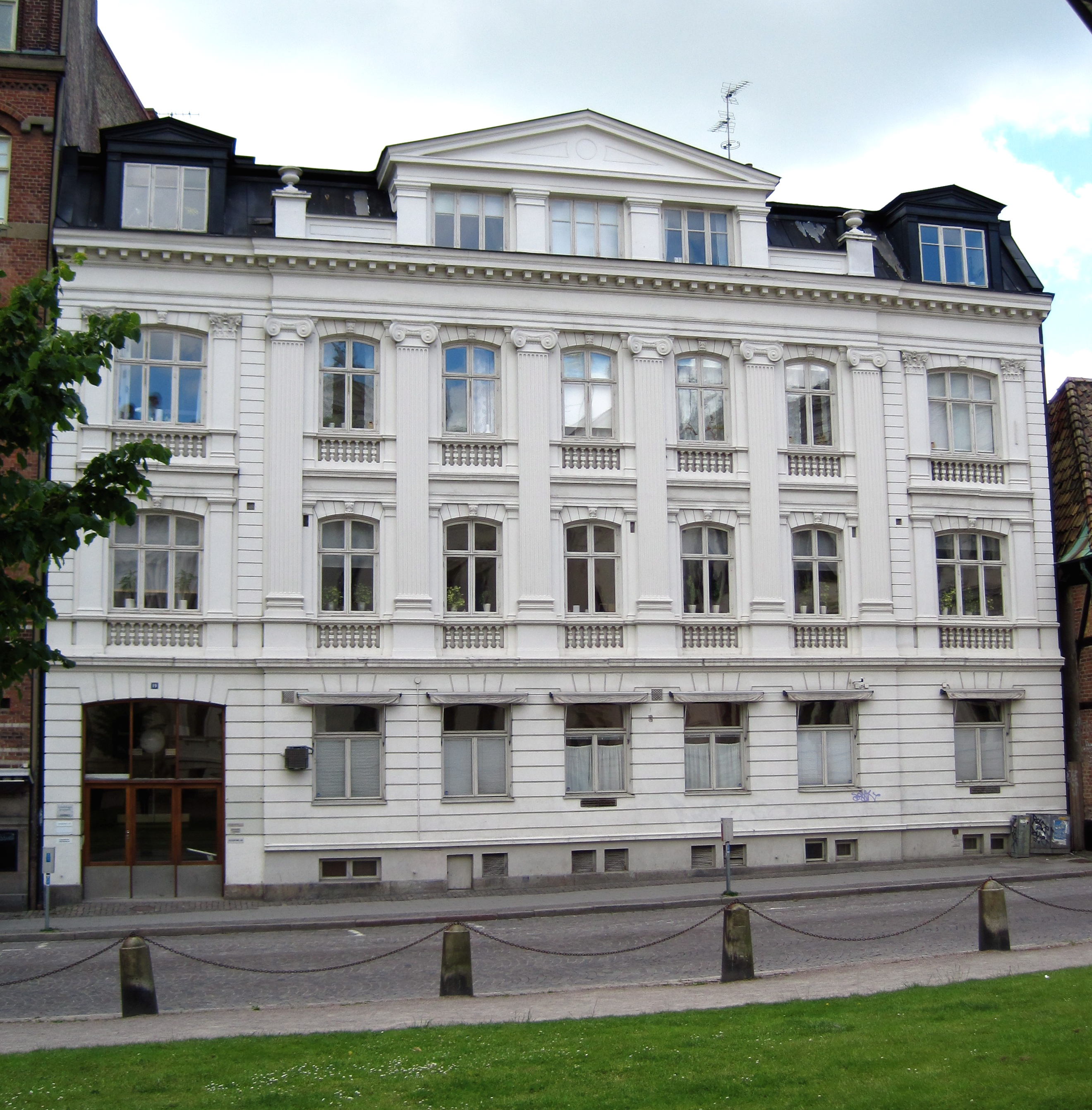 The house at Kyrkogatan 19 in Lund, Sweden. Erected in 1876 the building originally housed private apartments. Later it was turned into a hotel ("Hotell Göthe") and from 1919 to 1965 it was the home of Lunds studentkår's Konviktorium (a dining hall for students founded by the students' union).